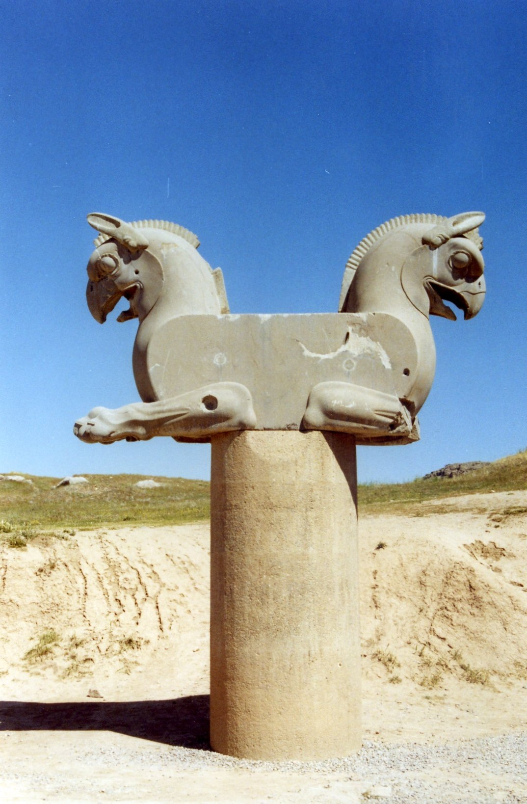 Griffins, unused Top of a column Picture Taken by myself Persepolis Iran April 2006